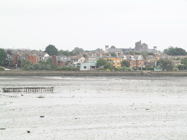 Clontarf: Clontarf Castle. Coast road Clontarf. Note Clontarf castle top right.